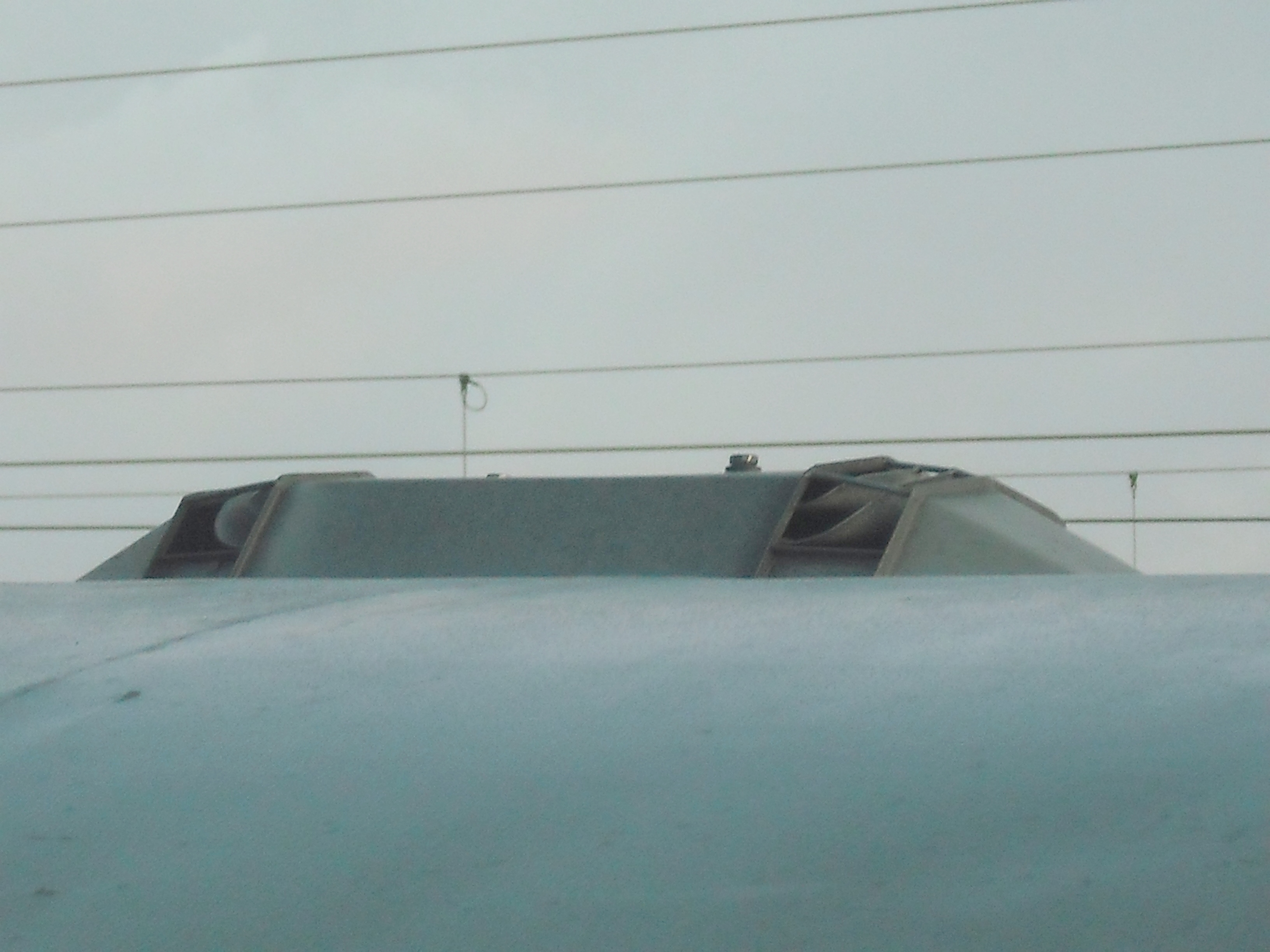 Static exhauster 'Kuckuck'-design on a older passenger car of Deutsche Bahn AG